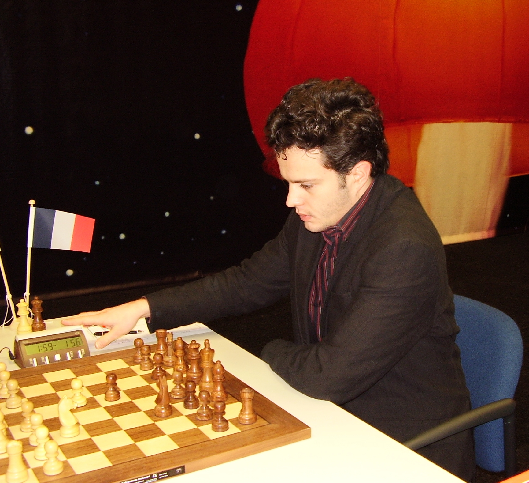 E. Bacrot at Corus tournament, January 2006. Own photo.